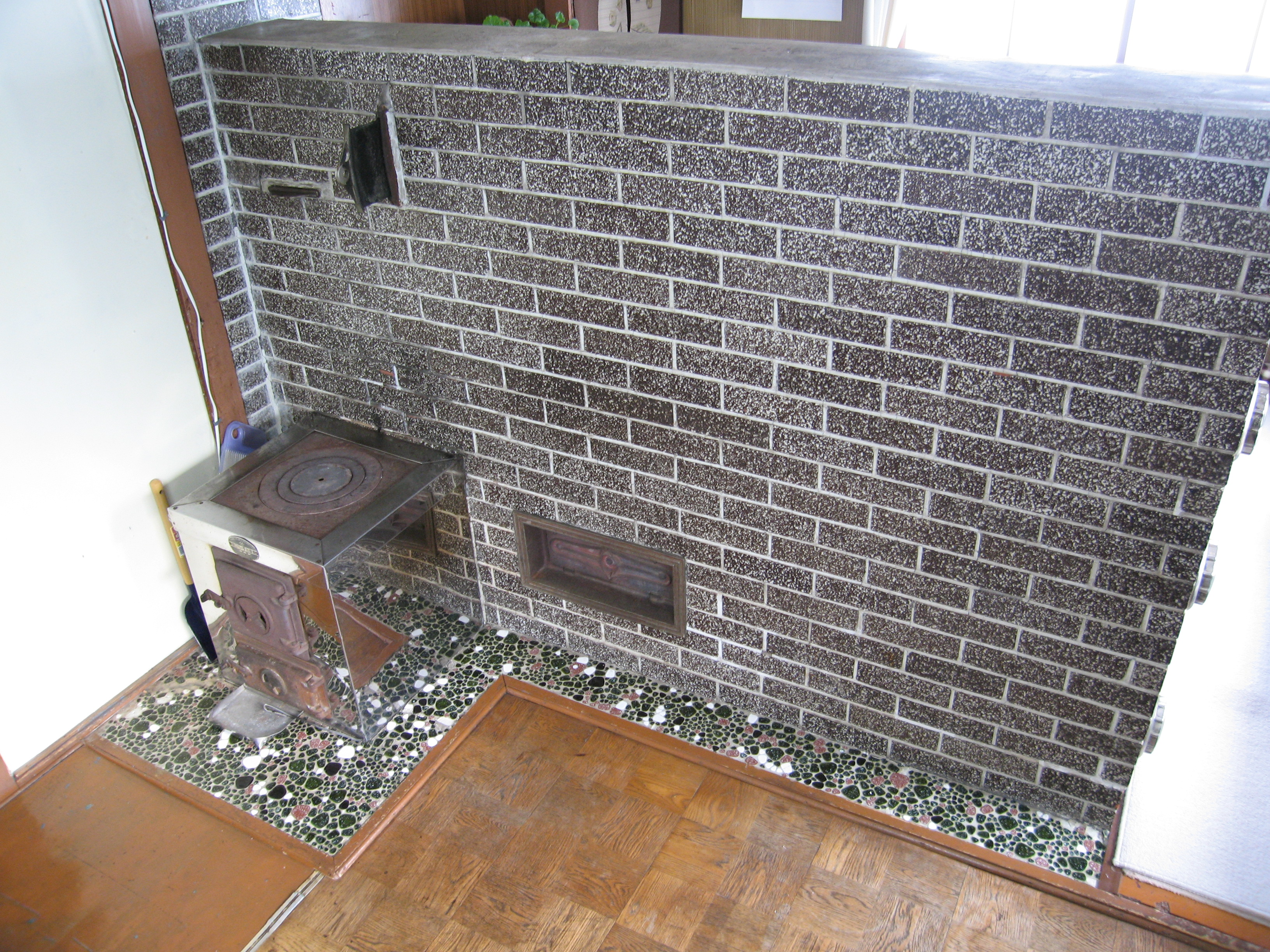 Russian fireplace "pechka" Hokkaido, Japan